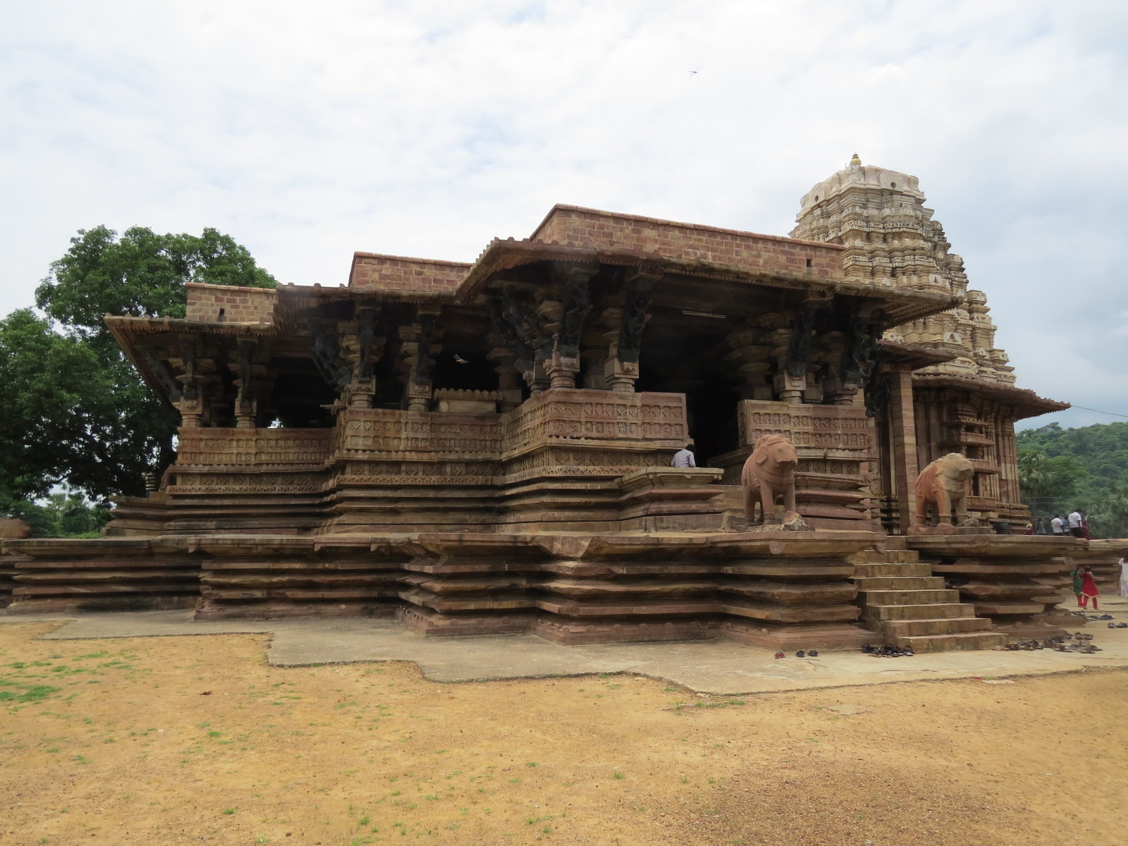 Ramappa Temple Warangal